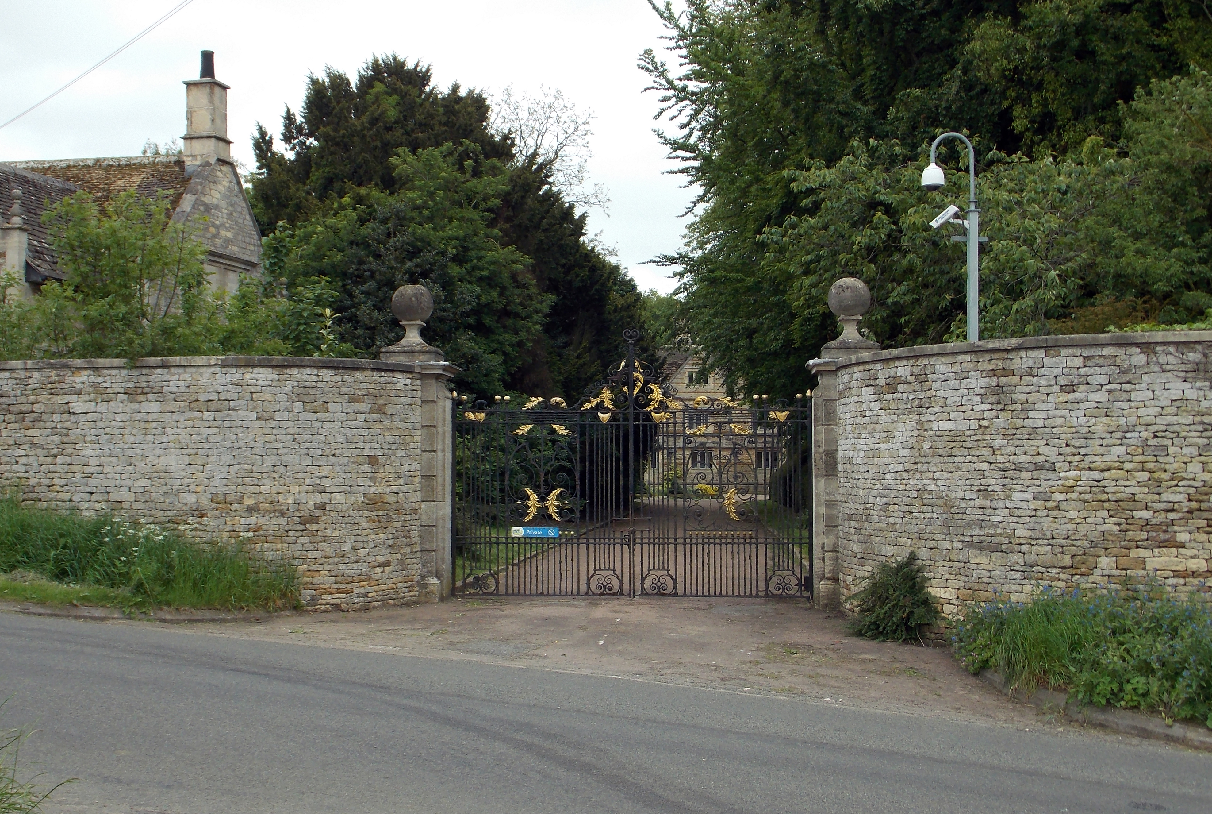 Entrance gate to Caythorpe Court, Caythorpe Heath Lane, Caythorpe, South Kesteven, Lincolnshire, England. Photograph taken opposite the main gates to the house at 4 pm, 8 June 2013. Grid reference SK9571648388.